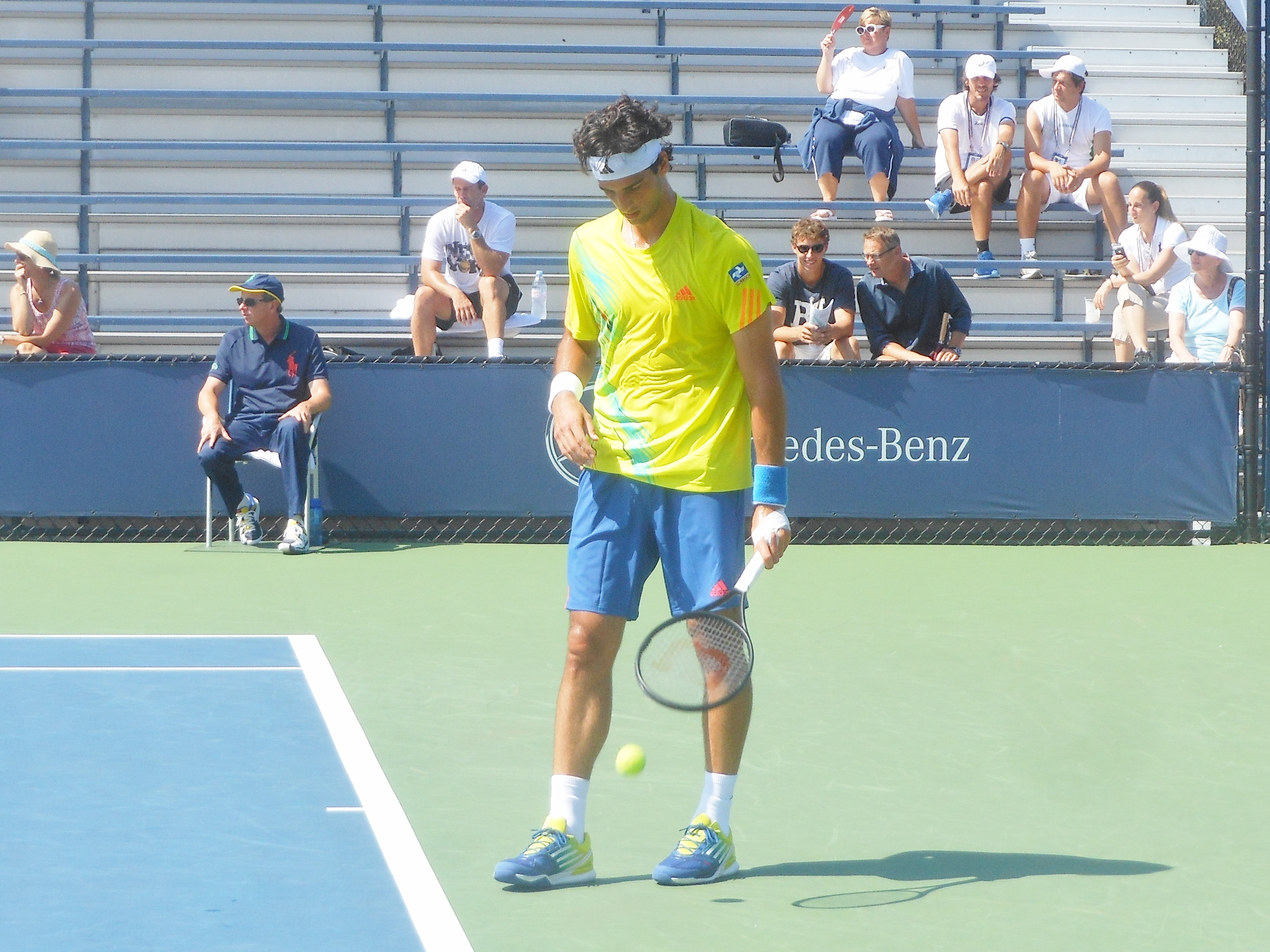 Bellucci 2013 US Open